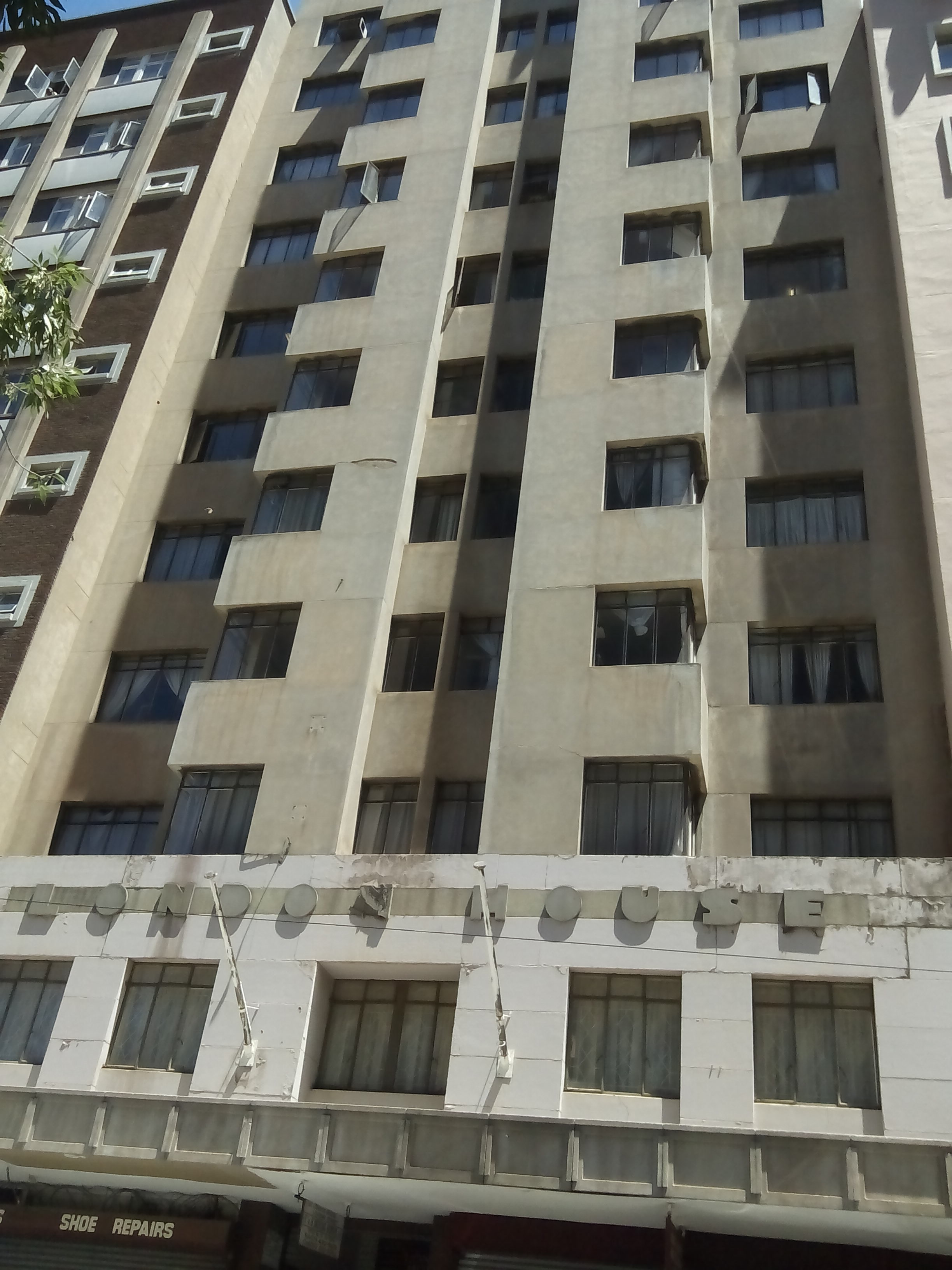 London House, 21 Loveday Street, Cnr. Main Street.